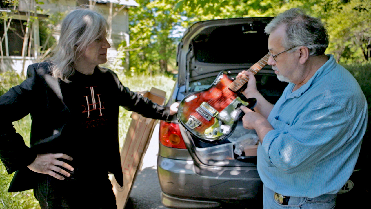 A video still from the documentary on the "$100 Guitar Project" by Emon Hassan for Guitarkadia, Nick Didkovsky and Chuck O'Meara discuss signatures on the "$100 Guitar" after it has been recorded by guitarists.